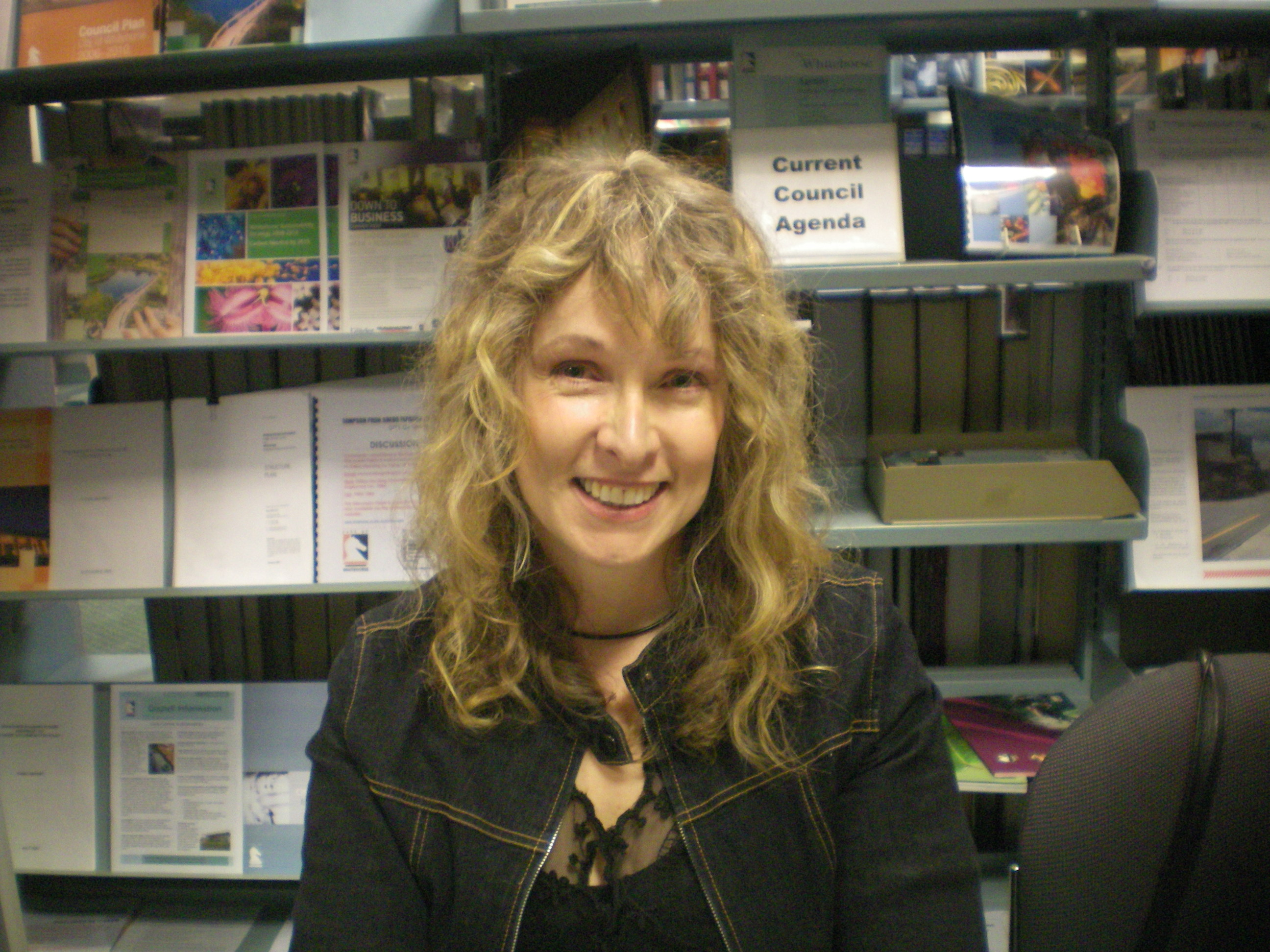 Cecilia Dart-Thornton.